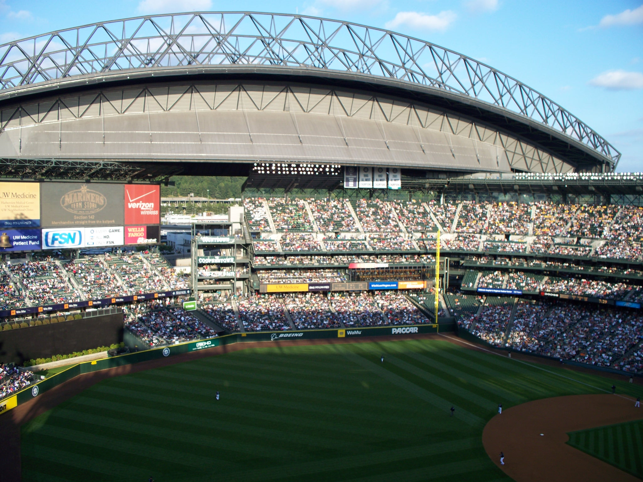 Description Photo of the retractable roof open, Safeco Field. Taken on 7/19/2008 Date7/19/2008SourceI created this work entirely by myself.AuthorTriviaKing (talk)DWS 06:04, 21 July 2008 . . TriviaKing . . 2,048×1,536 (921 KB) Photo of the retractable roof open, Safeco Field. Taken on 7/19/2008